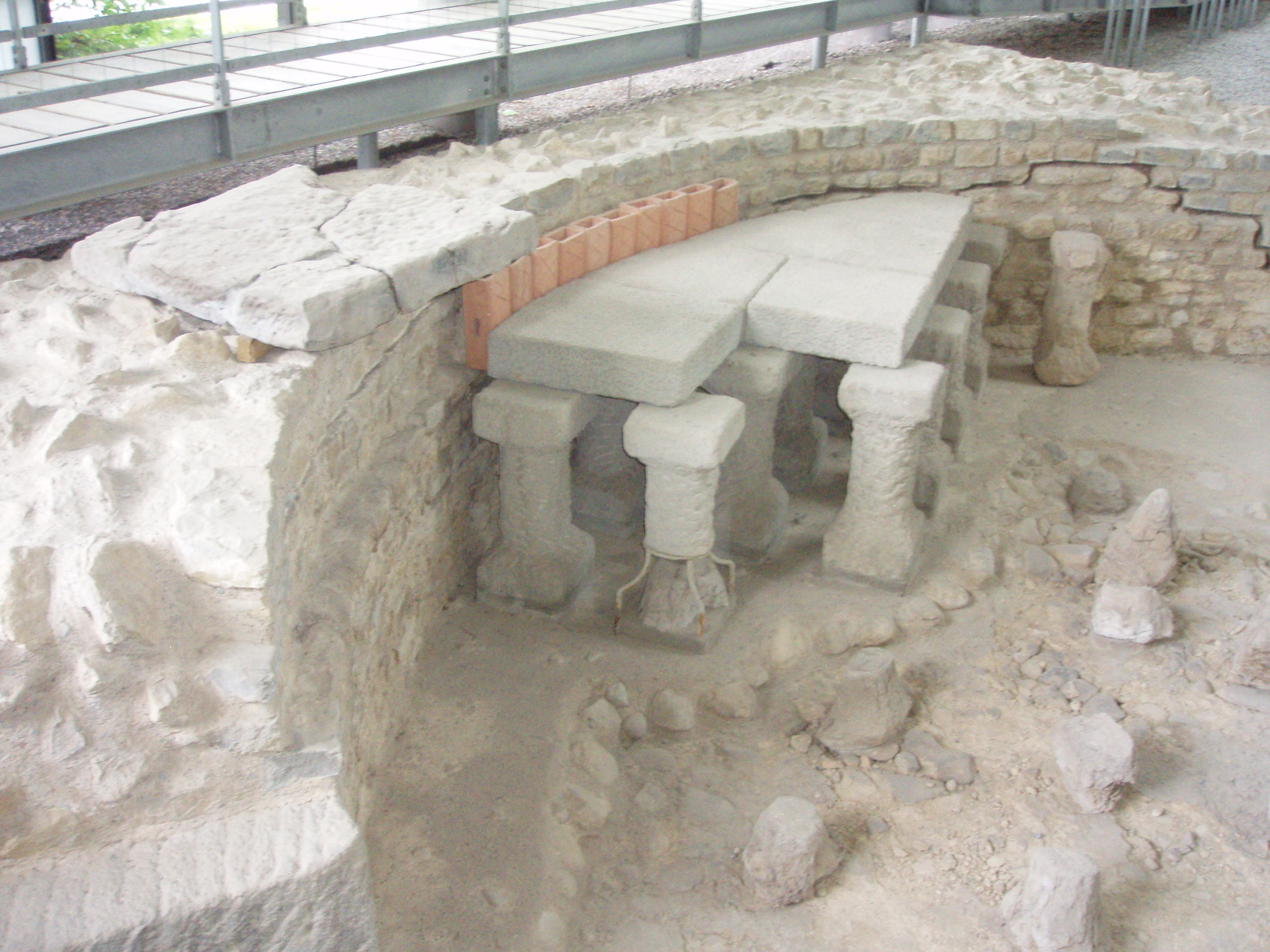 Cambodunum Hypocaustum